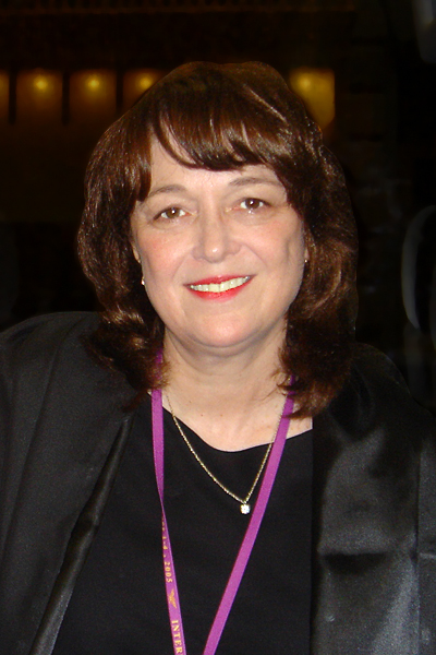 Nobel Laureate Linda Buck (Medicine, 2004) in NYC, on a bus heading to a Golden Plate Award event, cropped from Betsy Devine's original photo which includes Aaron Ciechanover (Chemistry, 2004) in shot